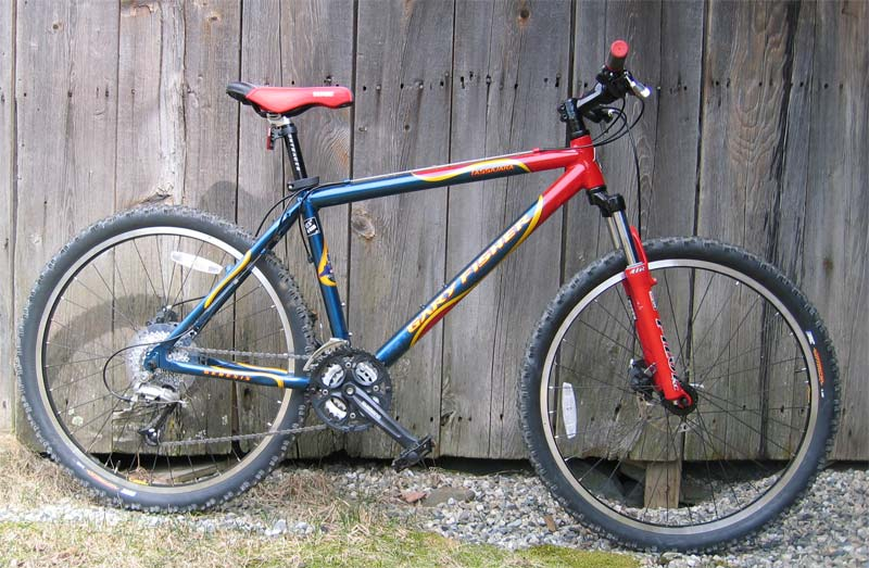 Description: Side view photograph of a mountain bike Source: Photograph taken by Jared C. Benedict on 11 April 2004. Copyright: © Jared C. Benedict. Other versions: smaller version (Info Page) Image:Mountain bicycle.jpg